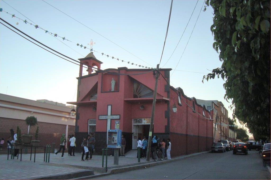 Saint Jude Thaddeus Church, Silao, Guanajuato, Mexico